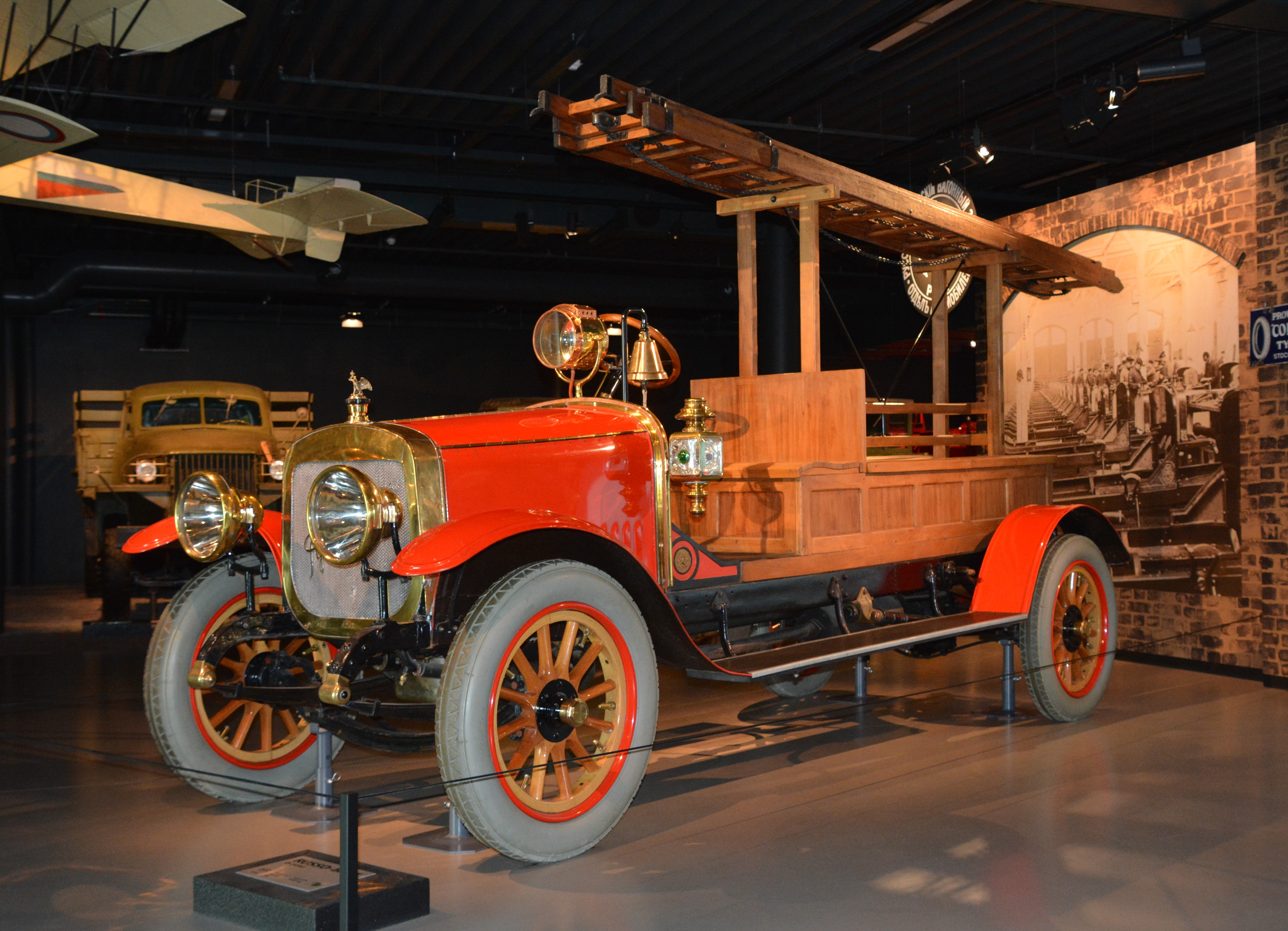 Russo-Balt fire engine type D24/40 from 1913, 4 cylinders, 4500 cc, 40 hp. Weight 2.56 tons, Max speed 40 km/h Riga Motor Museum